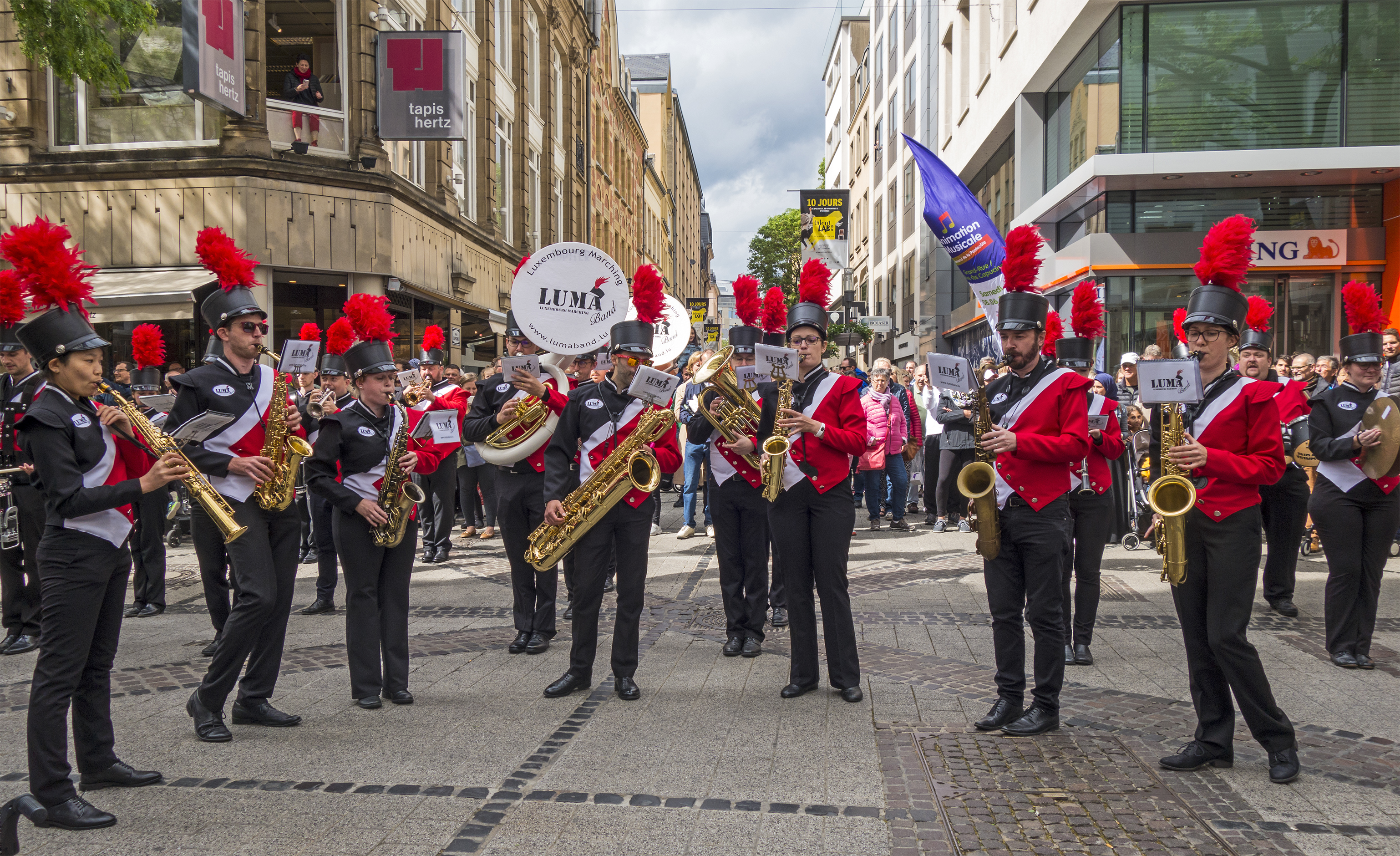 The Luxembourg Marching Band (Lumaband) in full action in Luxembourg City (Grand-Rue)